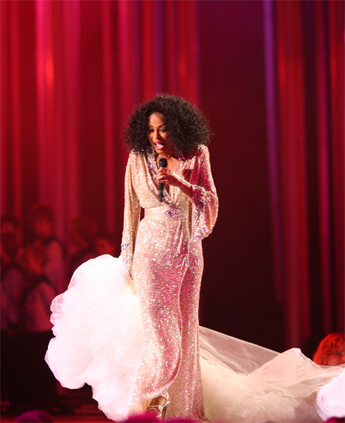 Nobel Peace prize Concert 2008, Oslo Spektrum, Diana Ross